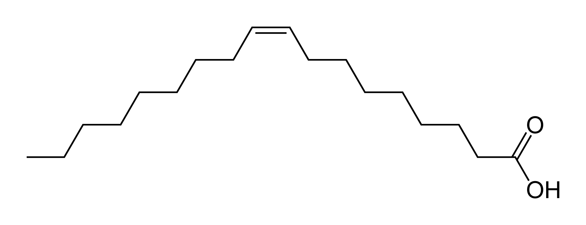 Skeletal formula of the oleic acid molecule, C18H34O2. Structure determined by X-ray crystallography in J. Phys. Chem. B (1997) 101, 1803–1809.